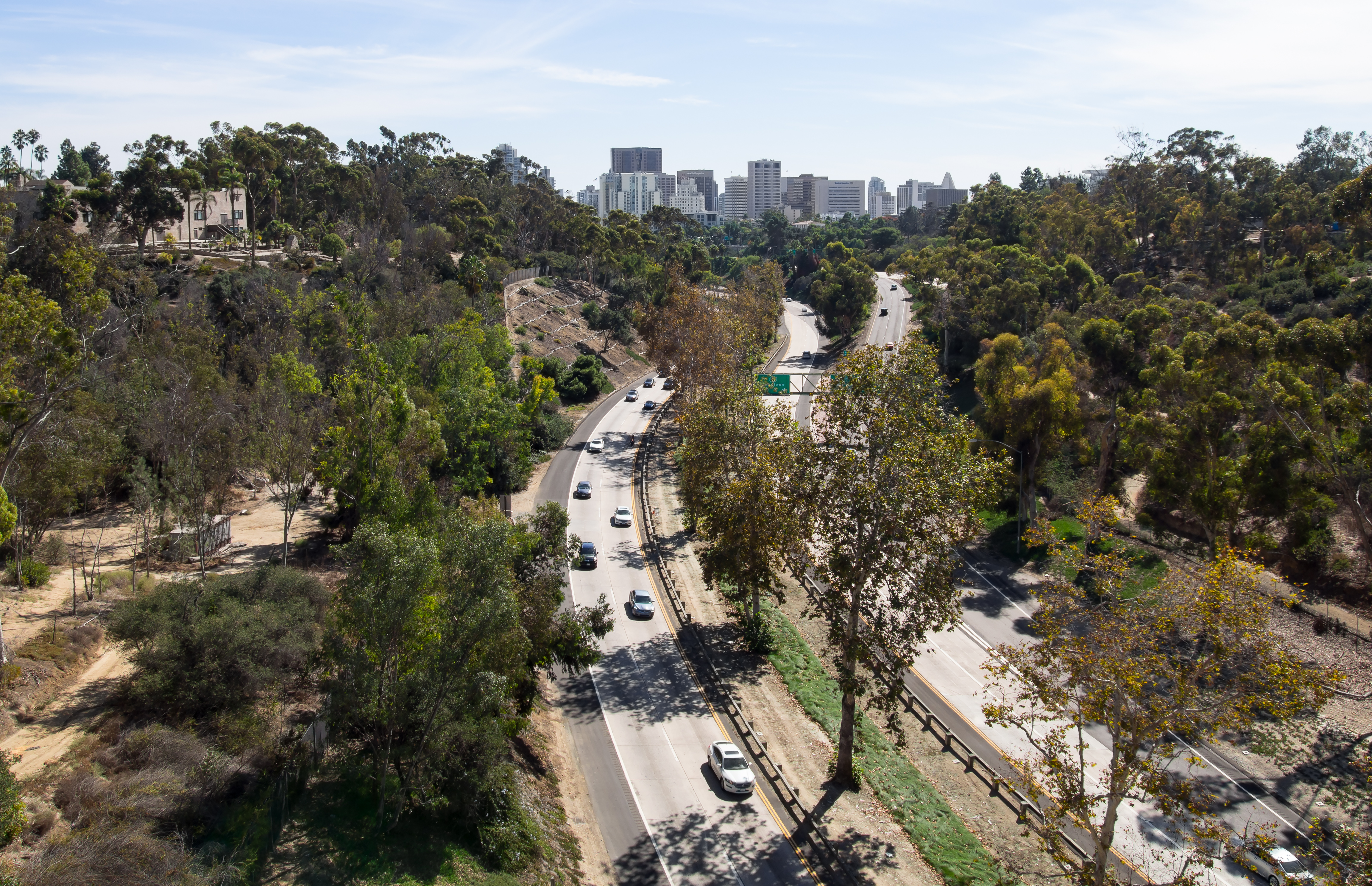 The Cabrillo Freeway, looking south from the Cabrillo Bridge in Balboa Park. Taken during the WikiConference North America 2016 Culture Crawl.